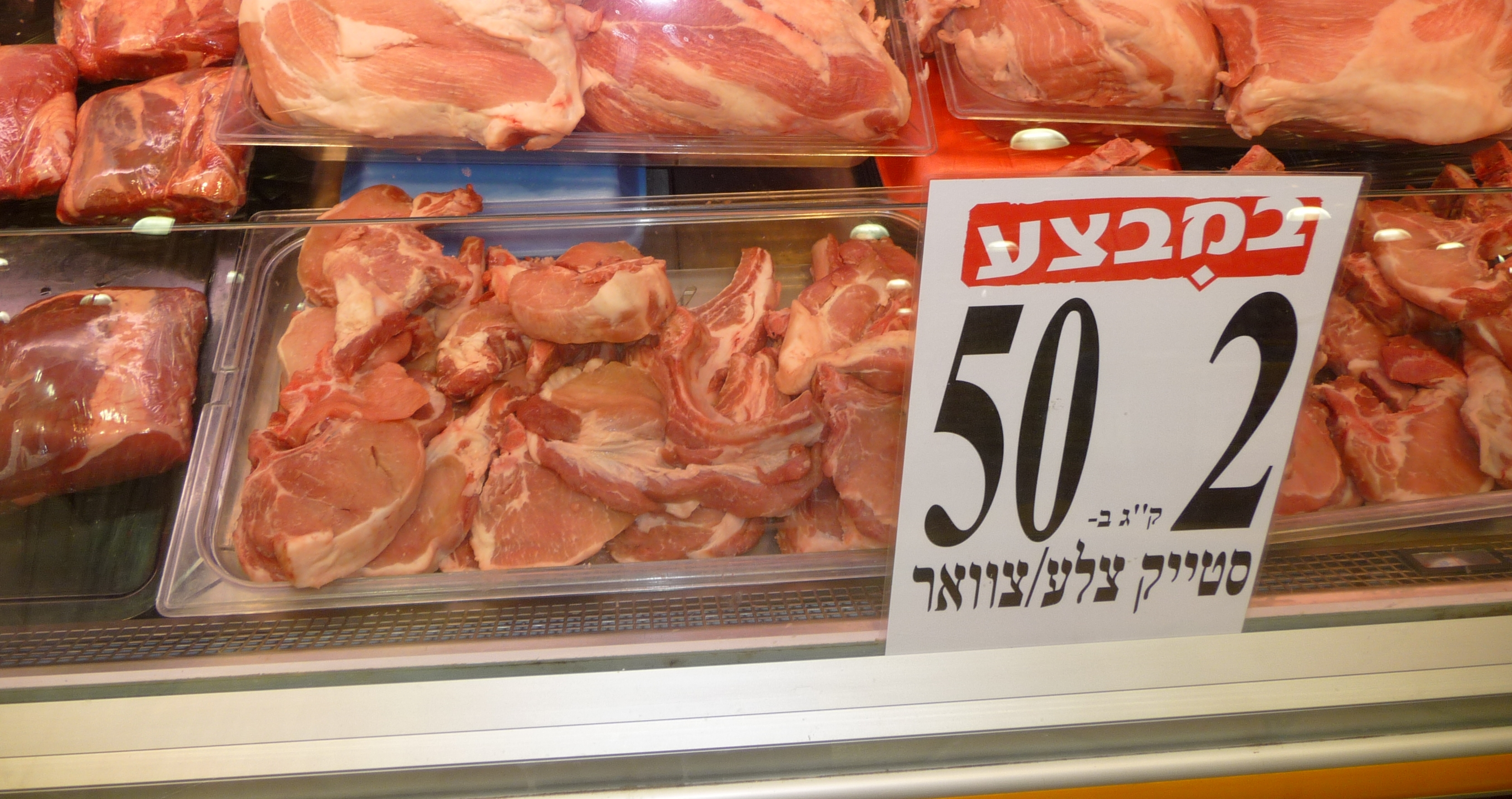 Special offer on pork chops in Tiv Ta'am, Beer-Sheva, Israel.